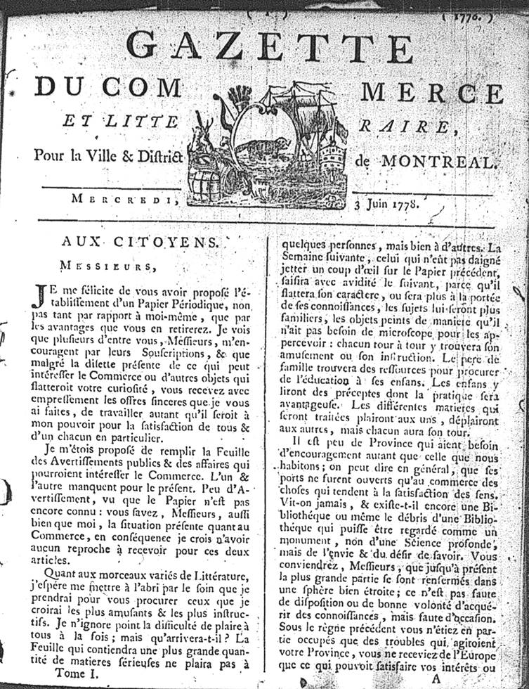 Title page of 'La Gazette du commerce et litteraire' by Fleury Mesplet, June 3, 1778